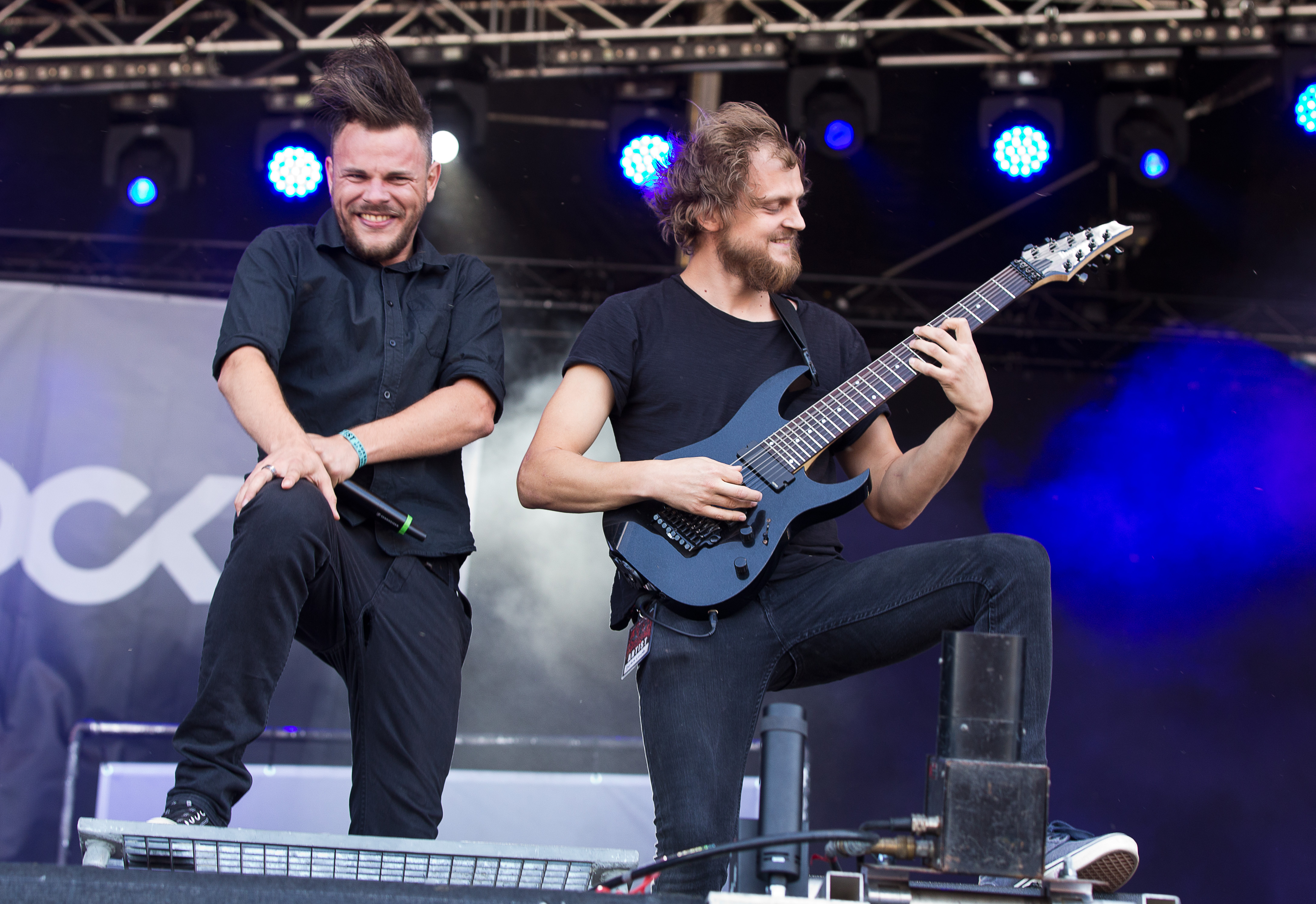 The German melodic death metal band Deadlock at the Rockharz Open Air 2016 in Ballenstedt/Germany.